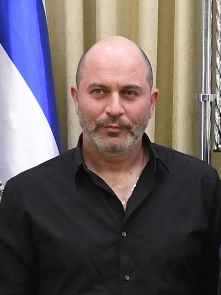 President of Israel, Reuven Rivlin, with the personal of the Israeli television serie, Fauda, Wednesday, February 7, 2018. Photo Credit: Mark Neyman / GPO.